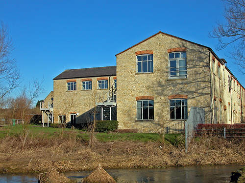 New Mill, on the River Windrush in the parish of Hailey, West Oxfordshire, England. There was a fulling mill on this site in the 13th and 14th centuries. There has been a woollen mill on this site since the 1580s but the present mill is more modern. New Mill was part of Earlys, blanket makers of Witney, from 1818 until the 1960s. It is now the premises for tour operator Audley Travel.